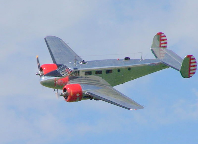 Beech 18 N21FS EDMT 20080719